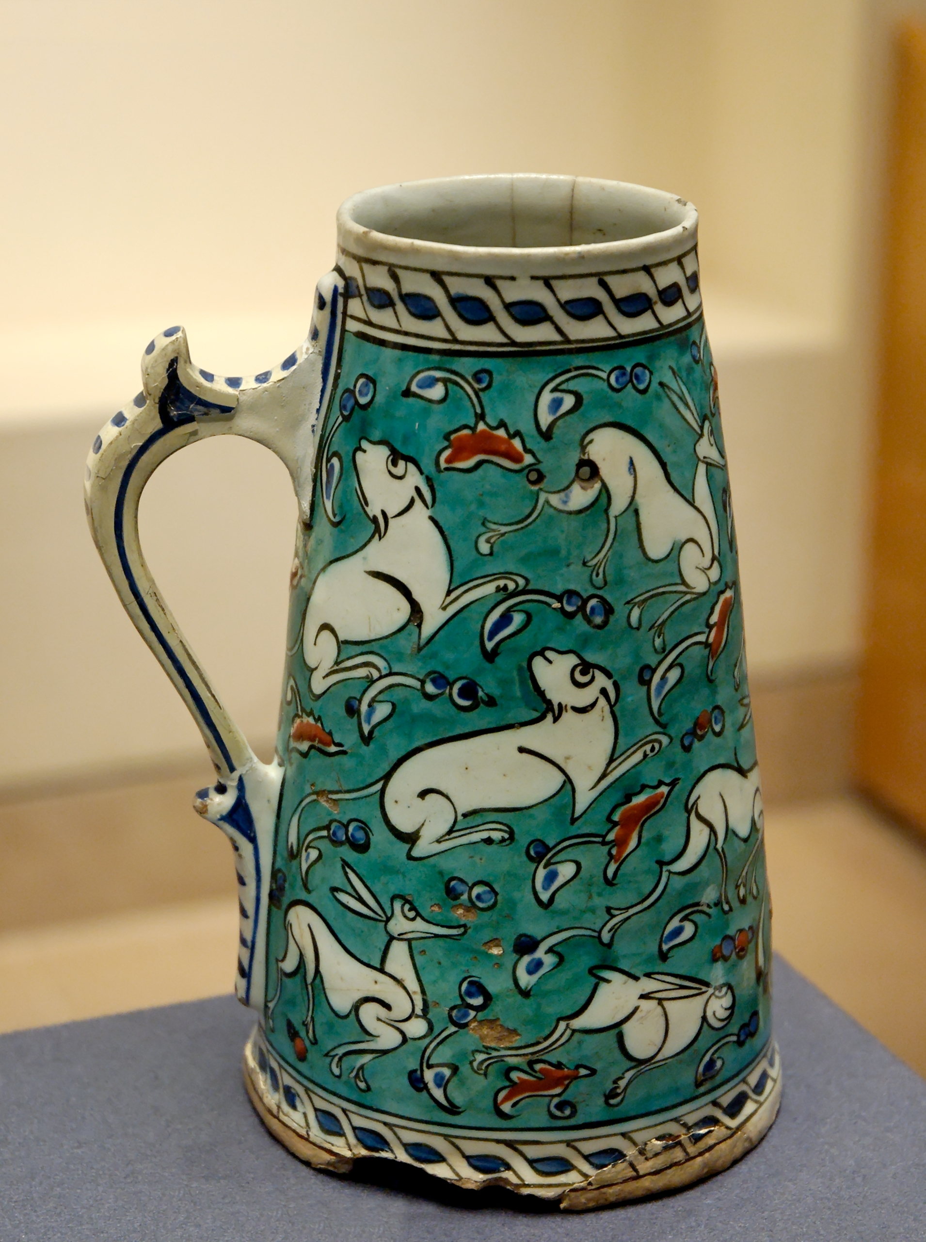 Mug with animals. Earthenware, painted with slip on slip, under transparent glaze.